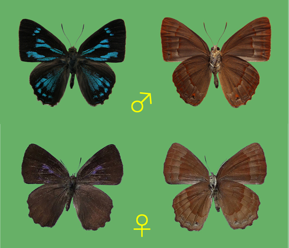 Deramas tomokoae, male and female